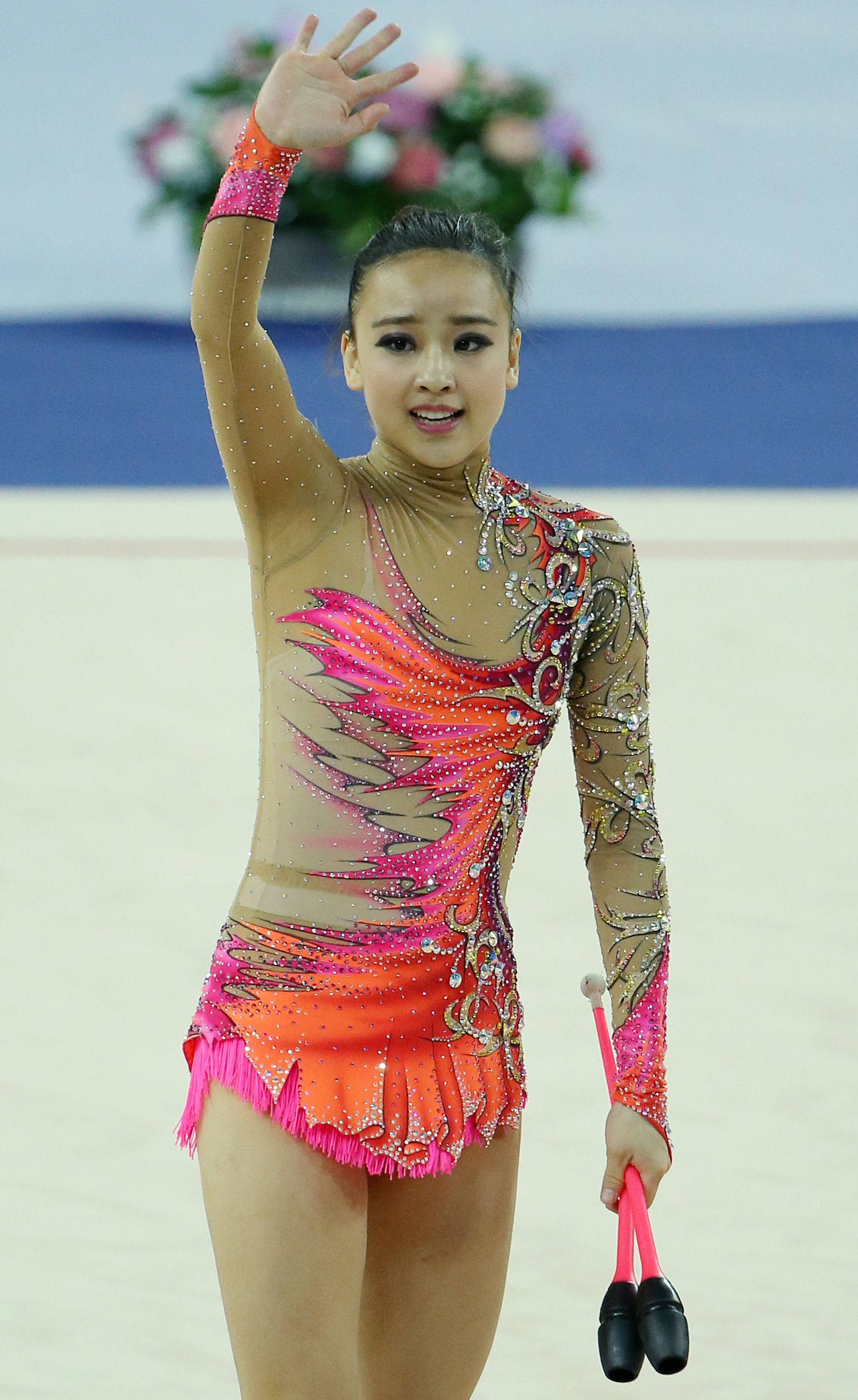 Son Yeon-jae performs during the gymnastics rhythmic individual final at the 17th Asian Games in Incheon, October, 1. October 2, 2014